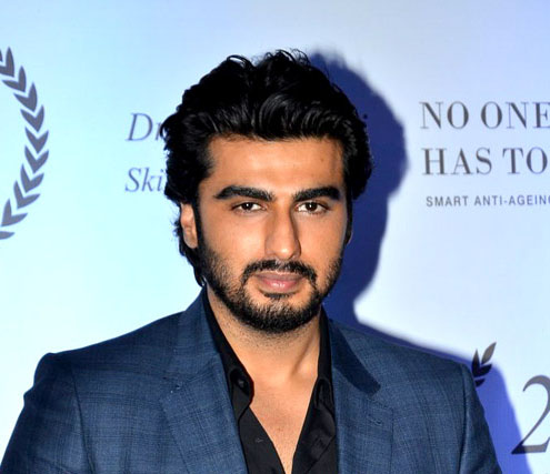 Arjun Kapoor grace the launch of the book No One Has To Know.